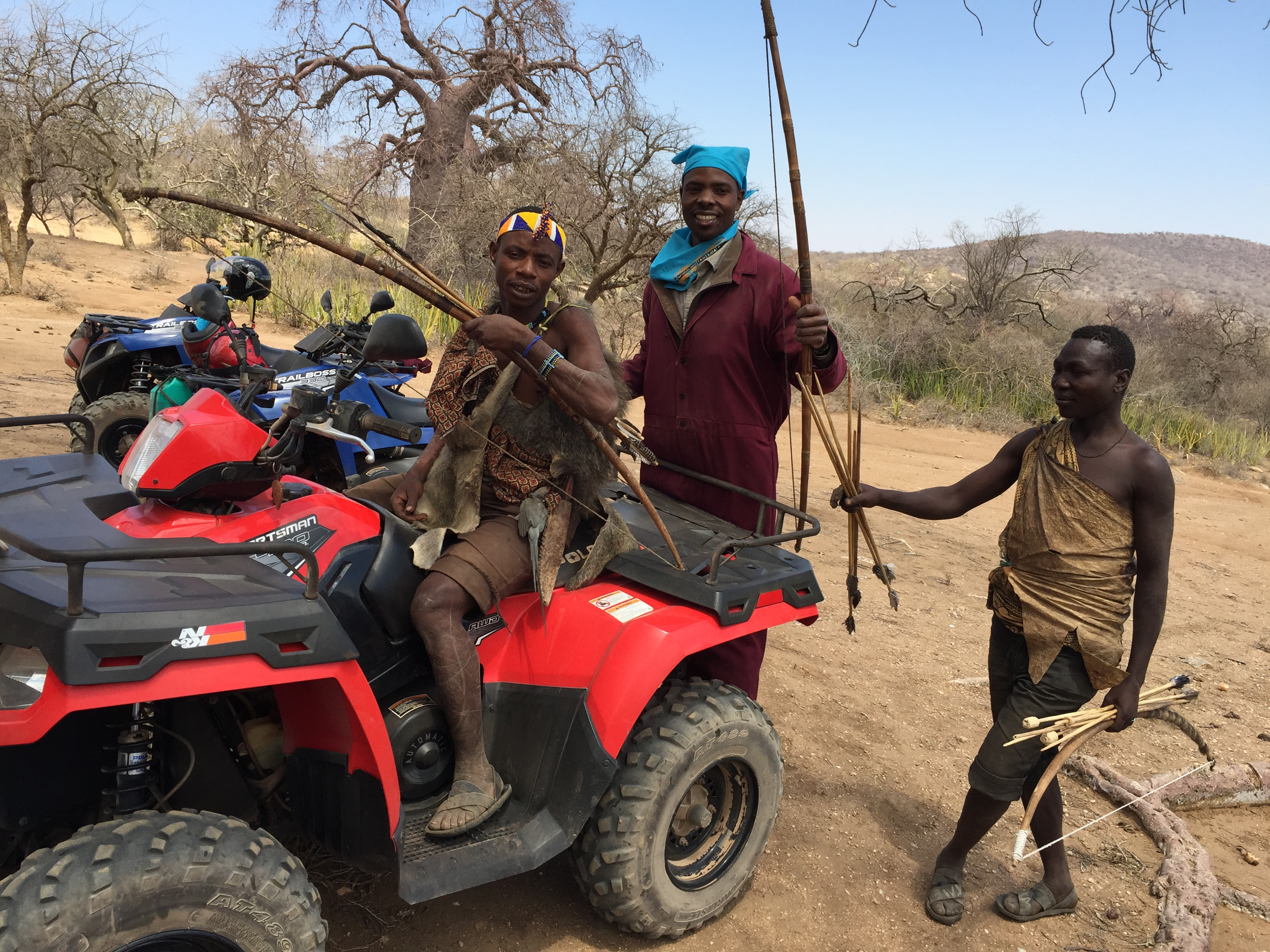 This modern tool could both hinder and help the Hadzabe on their daily hunt. This is an image of "African people at work" from Tanzania